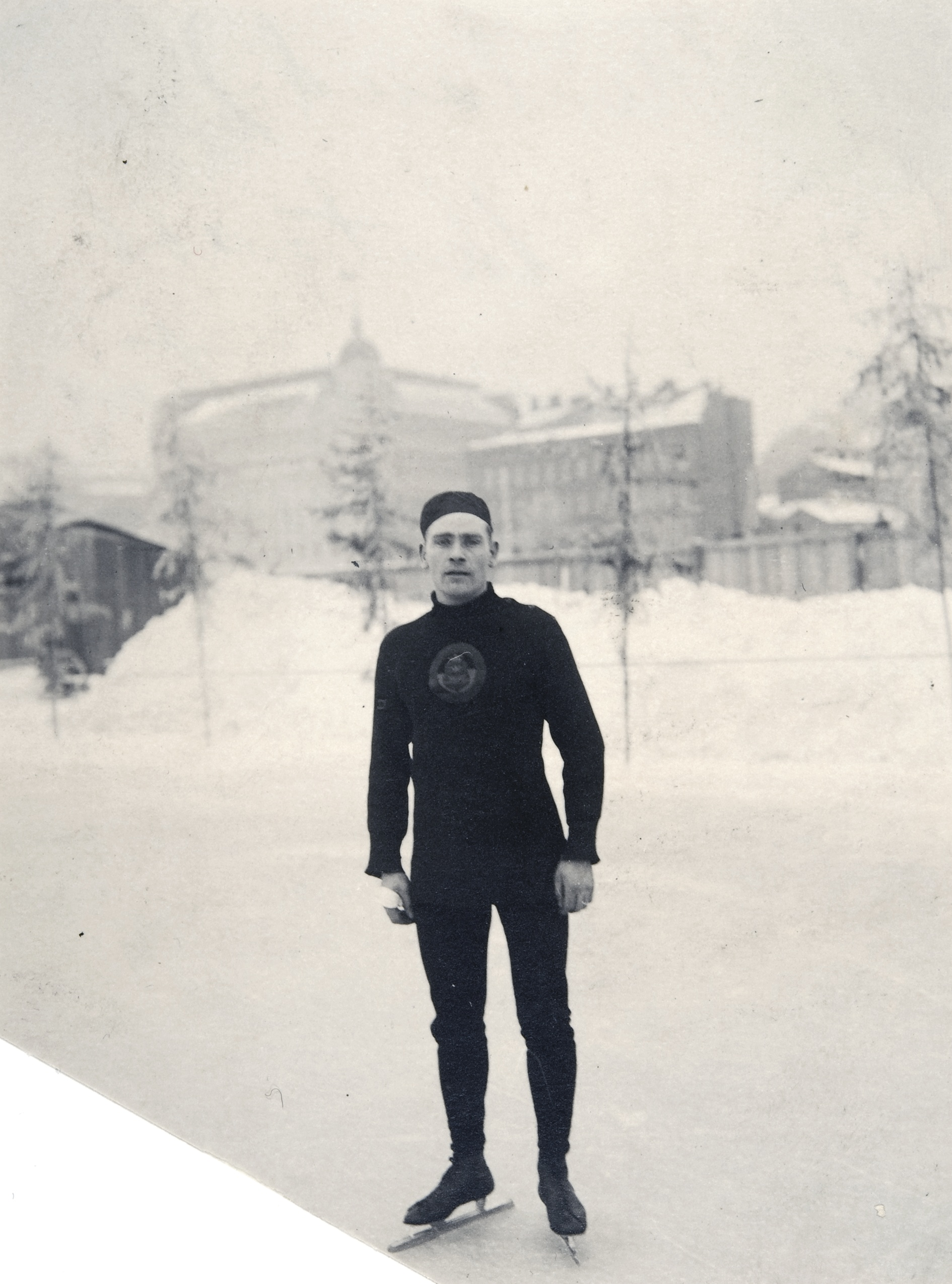 Julius Skutnabb